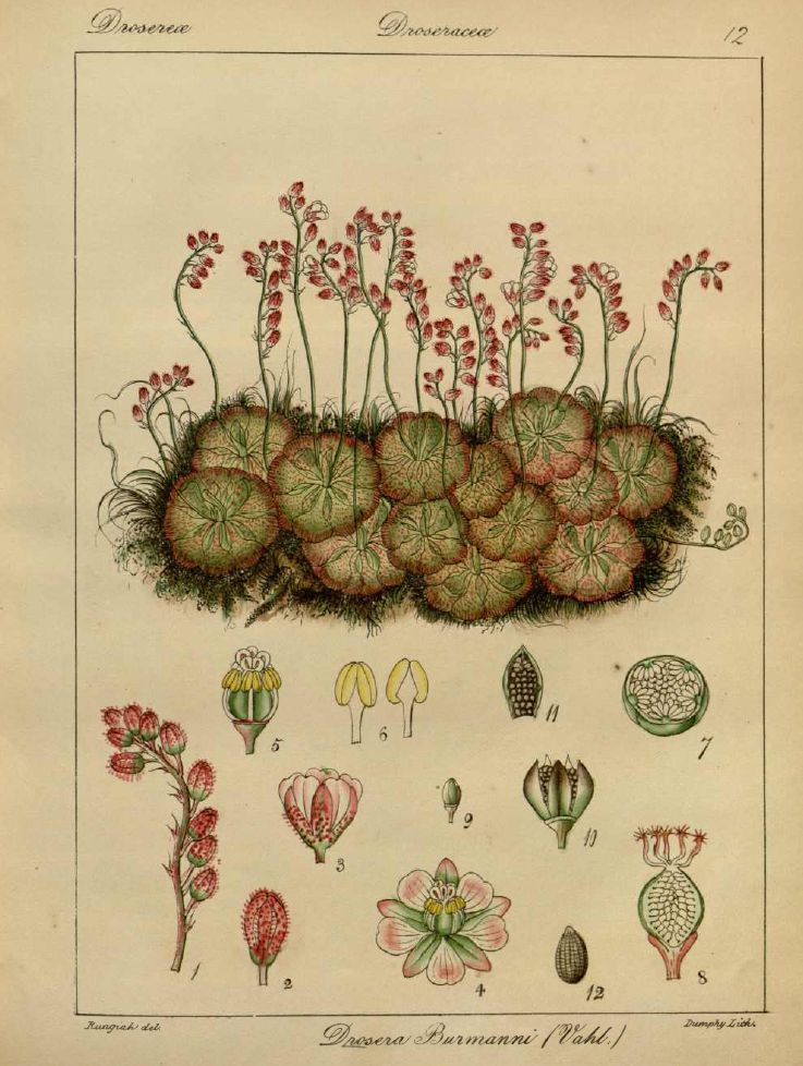 Drosera burmanni Vahl - "Spicilegium Neilgherrense, or, a selection of Neilgherry plants" :drawn and coloured from nature, with brief descriptions of each ; some general remarks on the geography and affinities of natural families of plants, and occasional notices of their economical properties and uses /by Robert Wight.By:Wight, Robert,1796-1872 Publication info:Madras :the author,[1846]-1851 NB This species is given as "Drosera burmanni" in The Plant List